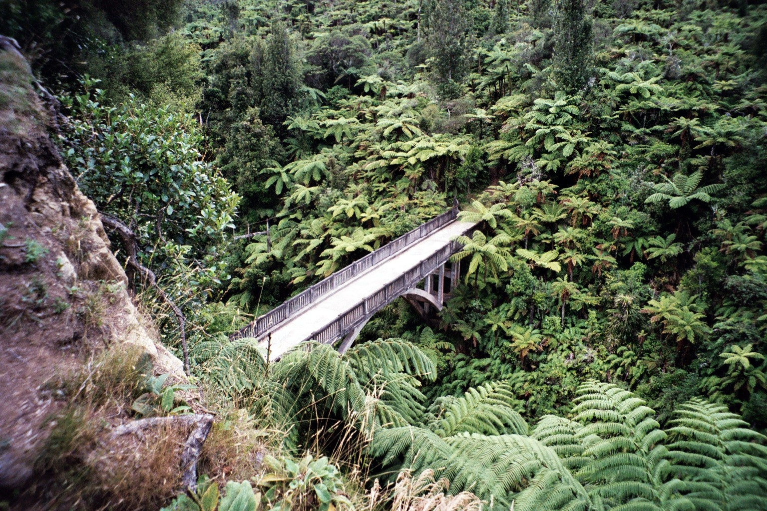 Bridge to Nowhere over Maungaparua Stream in New Zealand. The fern trees are most probably mamaku (Cyathea medullaris).